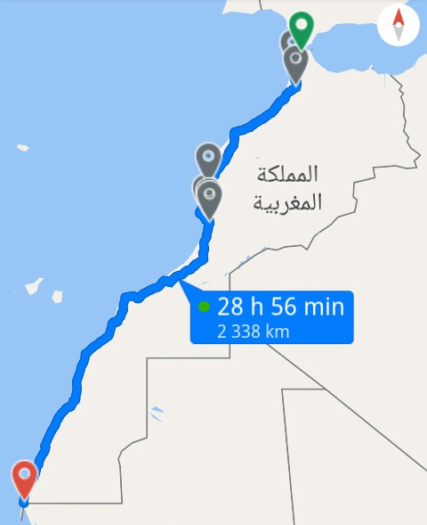 Moroccan National route 1 map, the road connects the North to the South of Kingdom of Morocco.